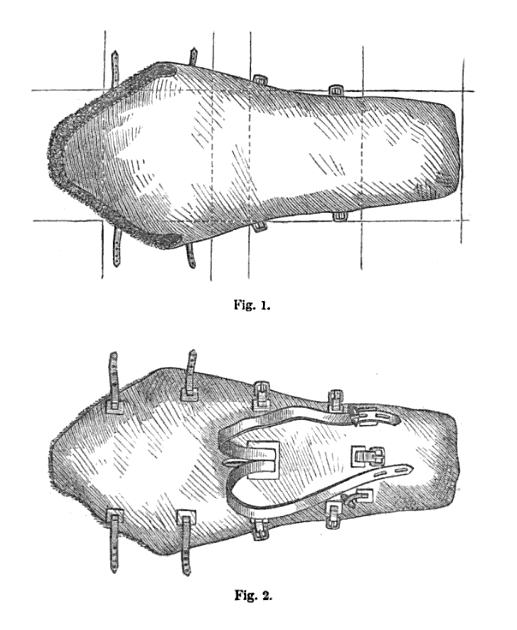 19th century knowledge hiking and camping sheepskin knapsack sleeping bag